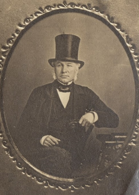 Portrait o' Samuel Peters Jarvis